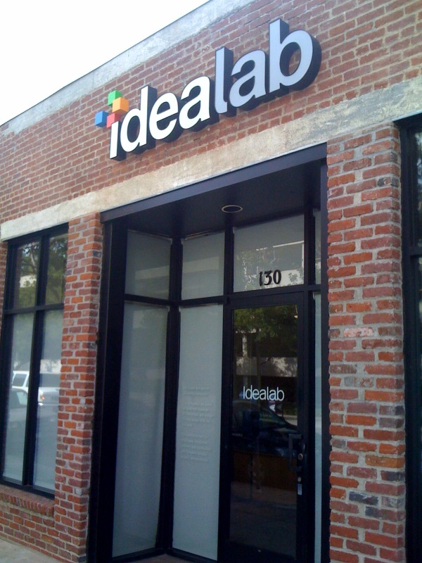 Idealab new logo displayed on the front of its main building in Pasadena.